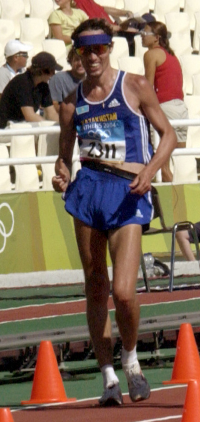 Kazakstan's Valeriy Borisov in the 20K Racewalk competition during the 2004 Olympics at the Olympic Stadium in Athens, Greece.